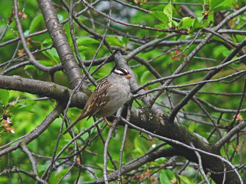 White-crowned Sparrow (Zonotrichia leucophrys) Ottawa, Ontario